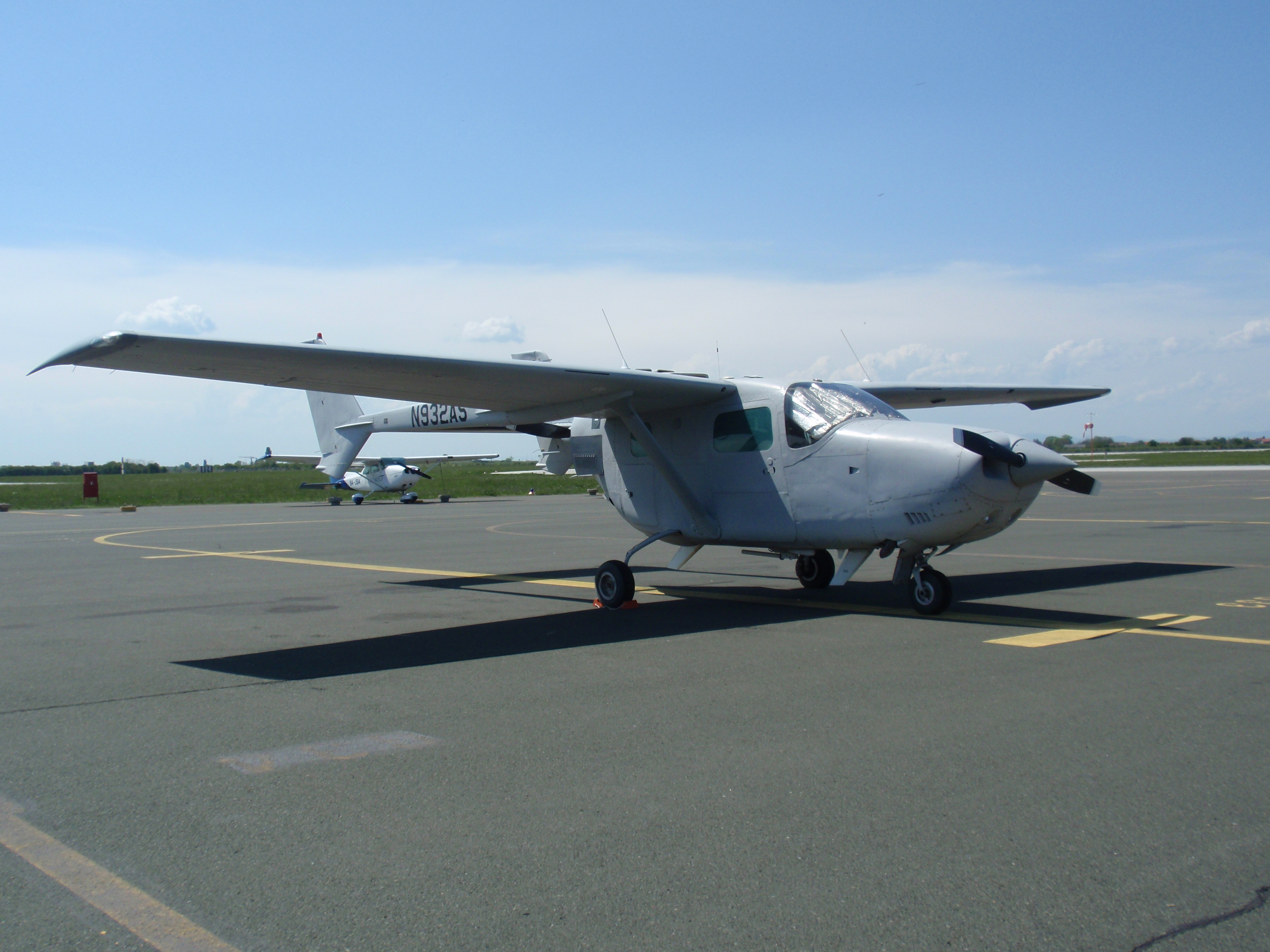 Cessna T337H Turbo Skymaster